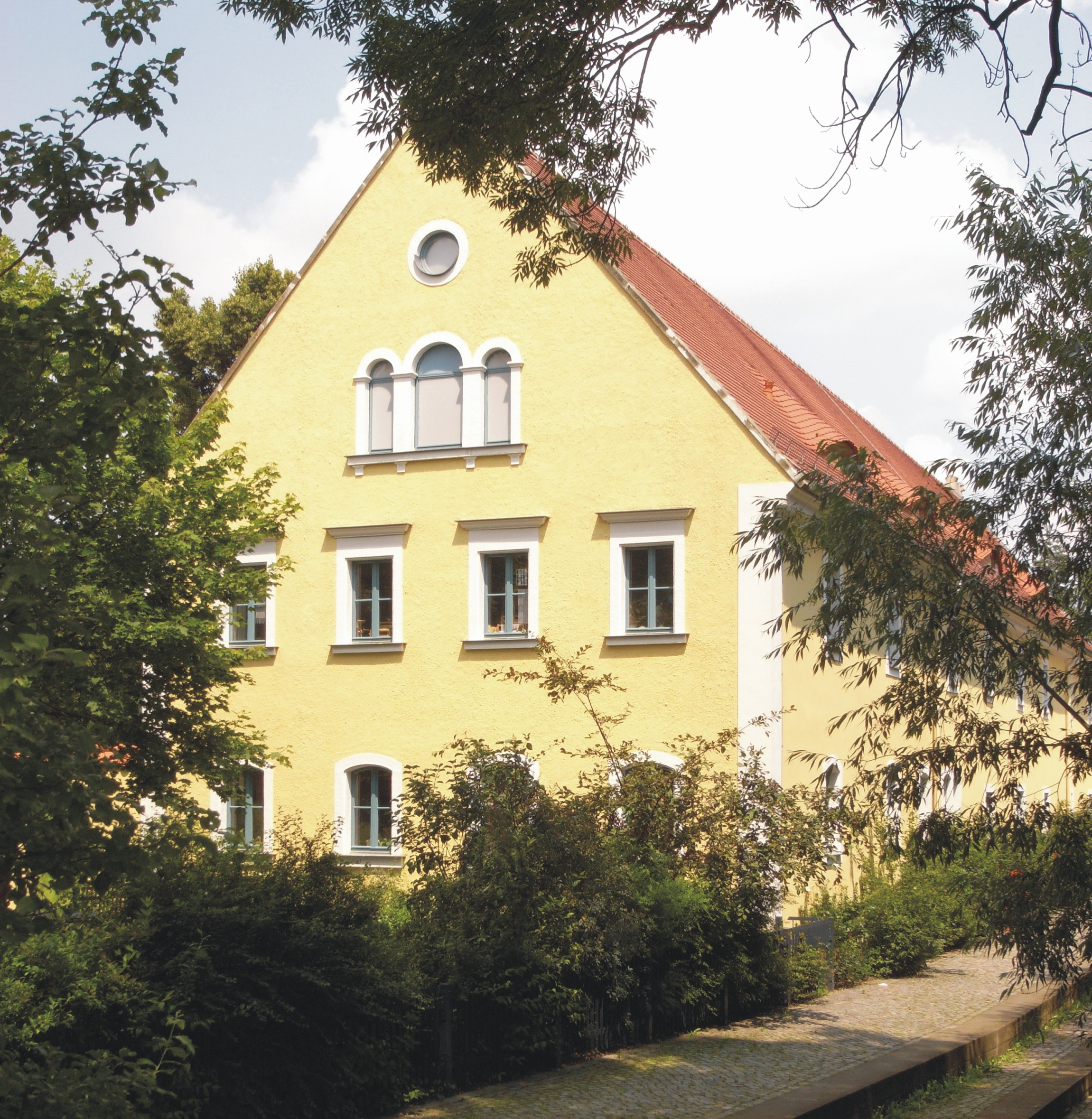 Palitzsch museum (Dresden, Saxony, Germany)